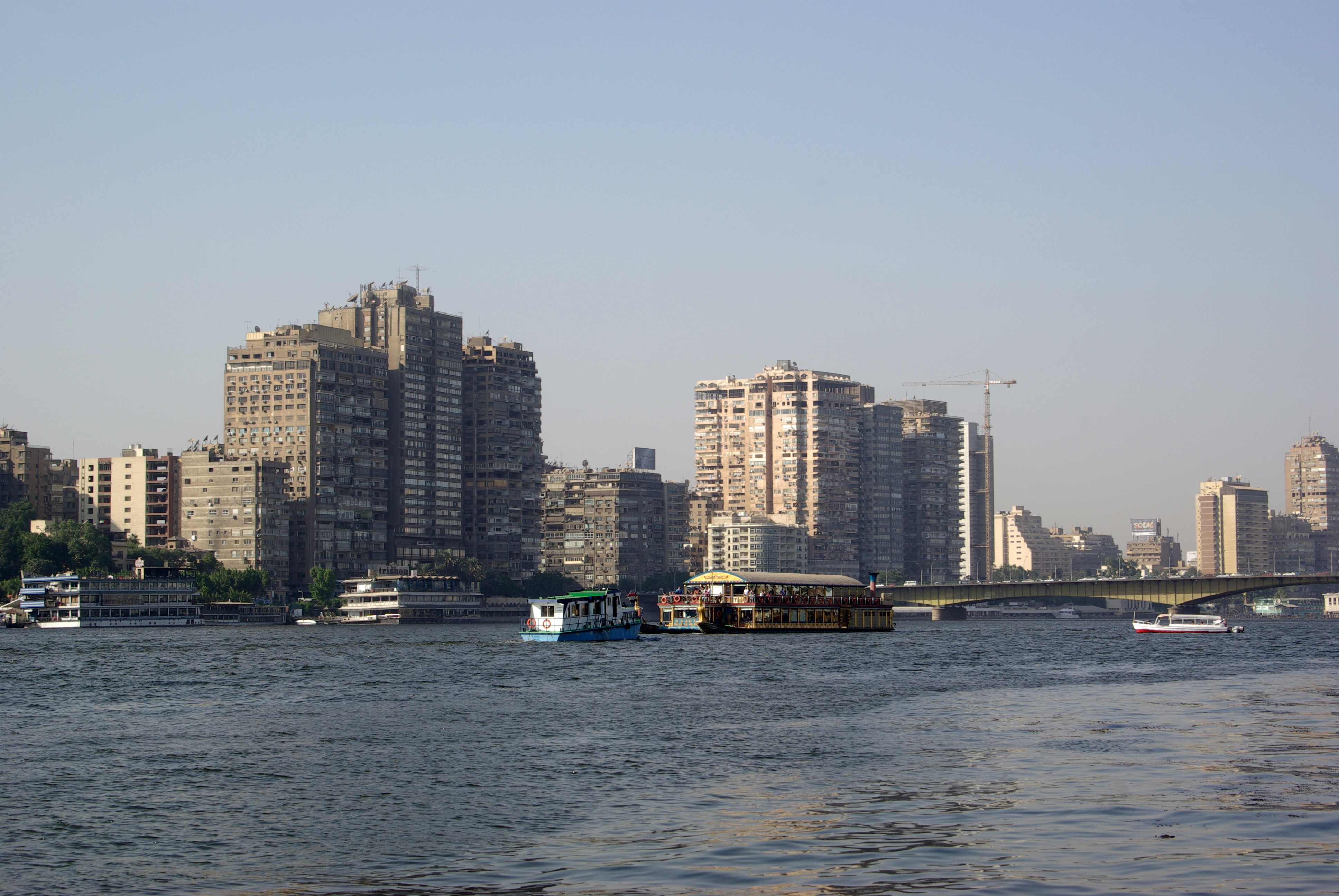 Egypt, The Nile in Cairo